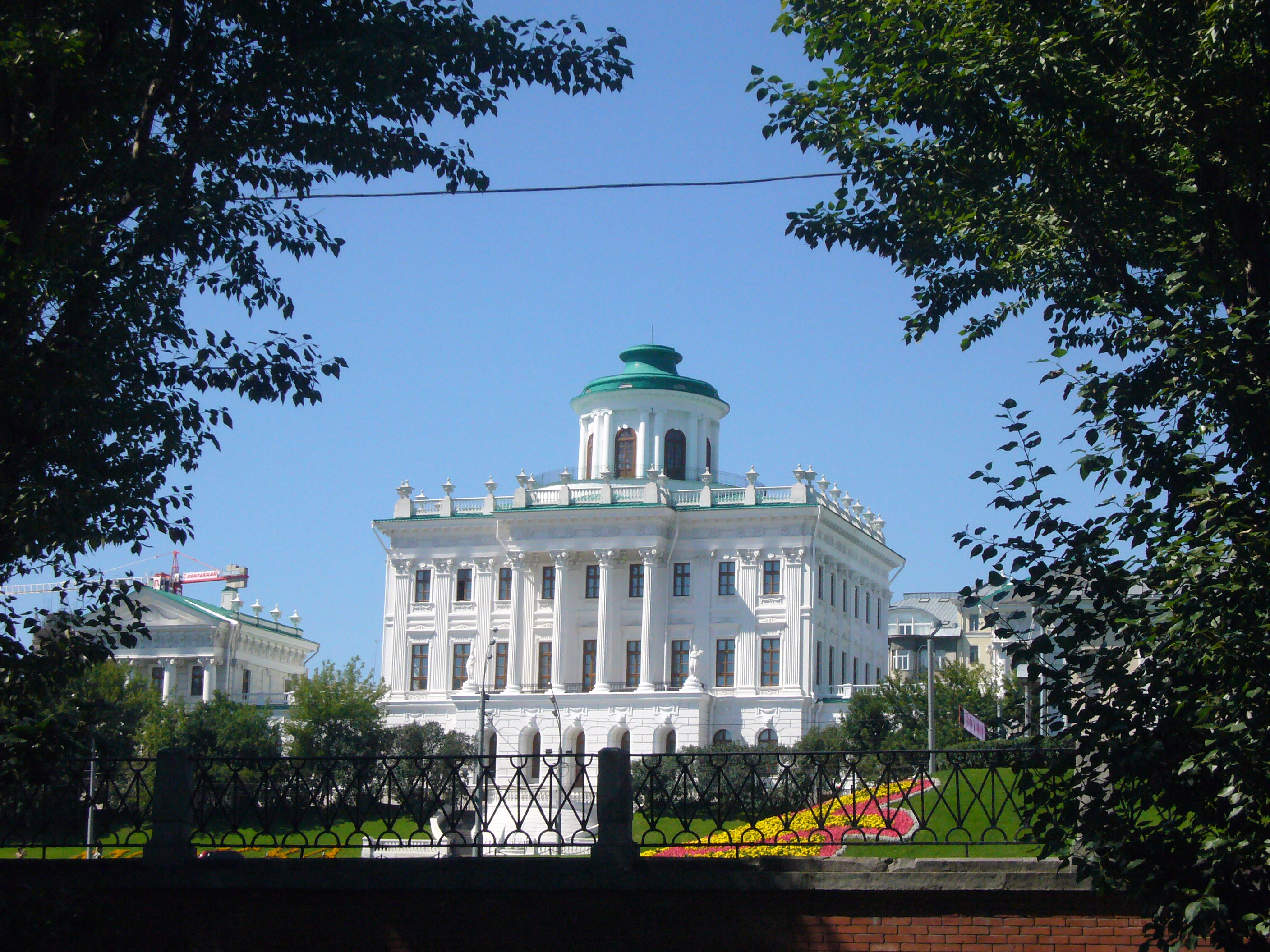 View of Pashkov House at 26 Mokhovaya Street, Moscow, Russia.